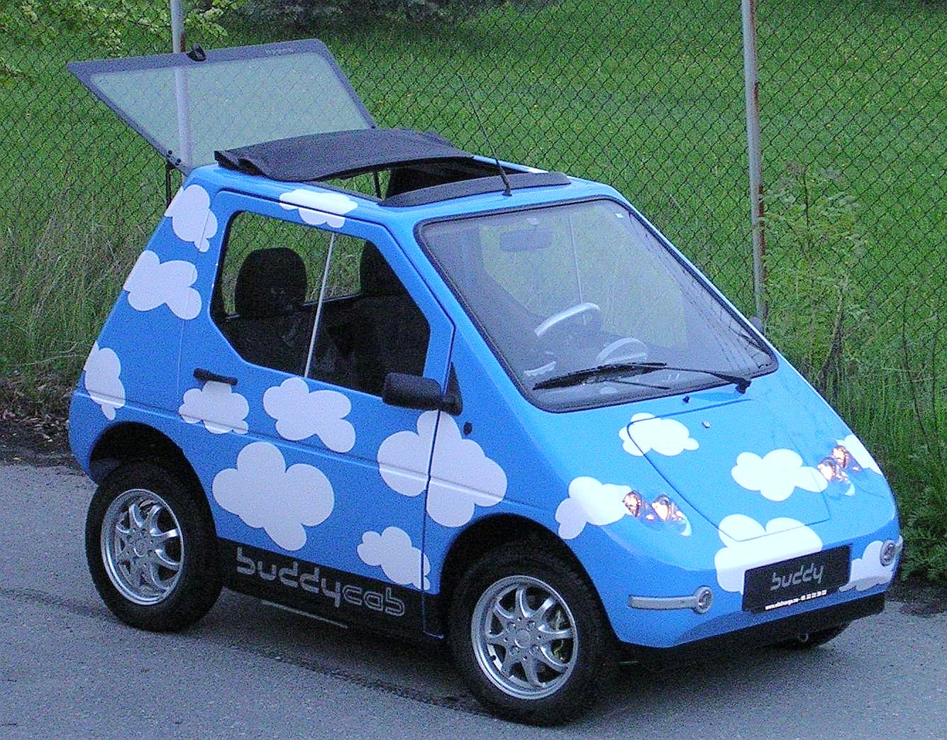 Buddy, electric car, developed by Elbil Norge AS, Oslo, Norway